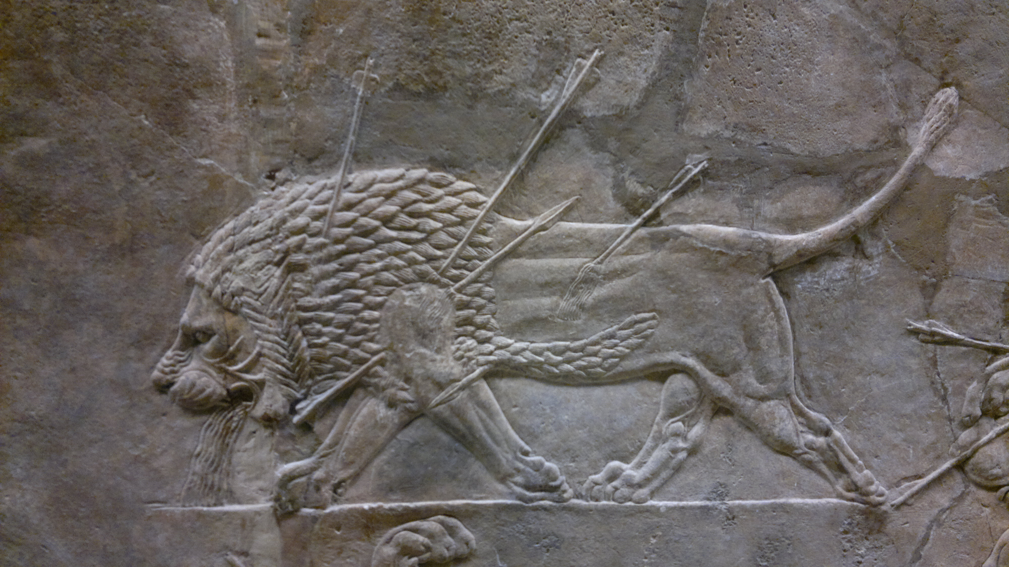 A detail of a wounded lion from the Assyrian lion hunt - this lion has suffered multiple arrow hits, blood from mouth.